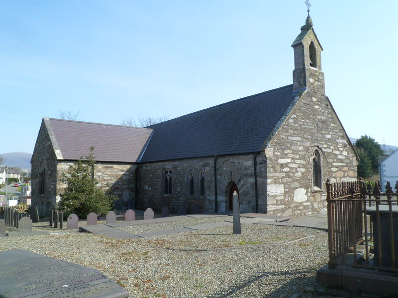 North side of Llanllyfni Parish Church